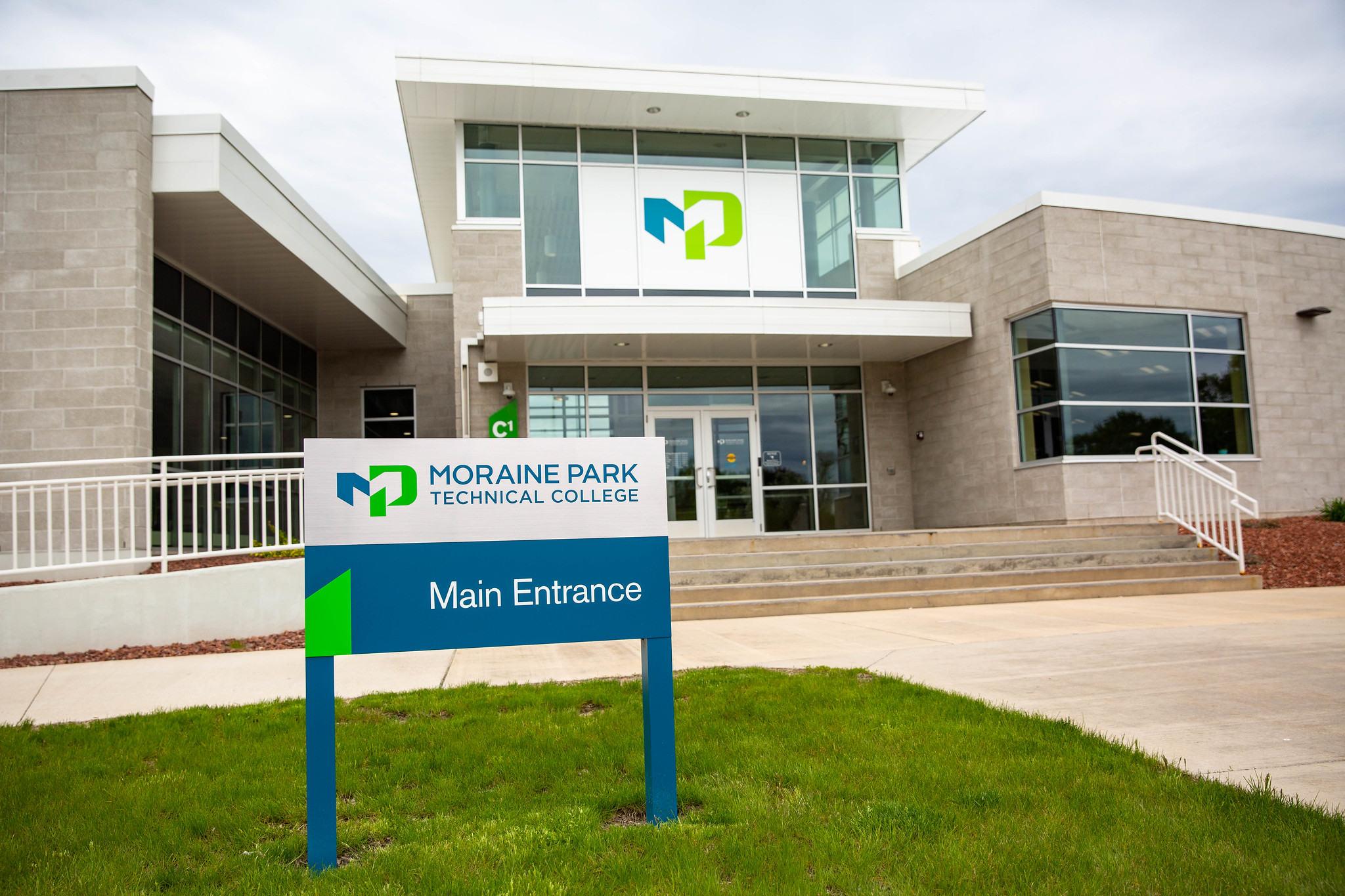 Fond du Lac Moraine Park Exterior Building